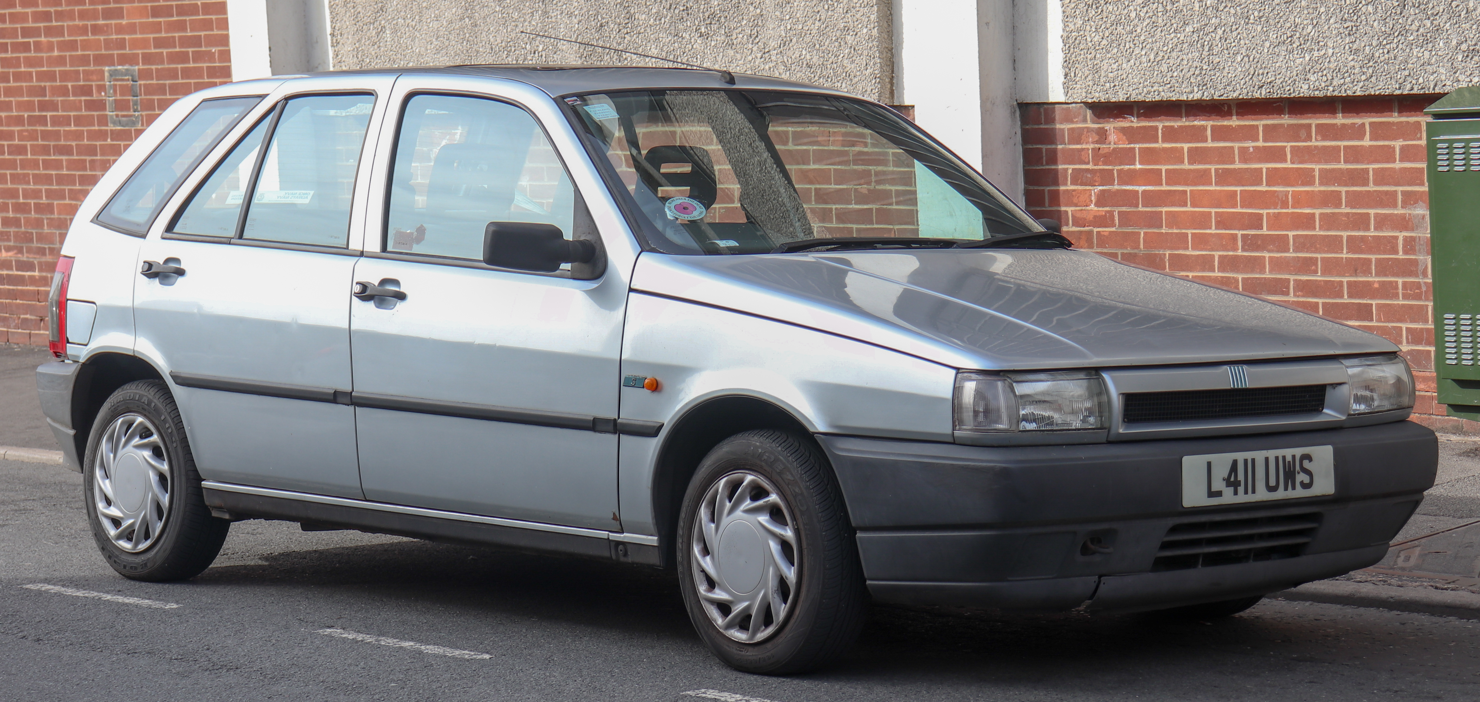 1994 Fiat Tipo S IE 1.4 Front Taken in Leamington Spa